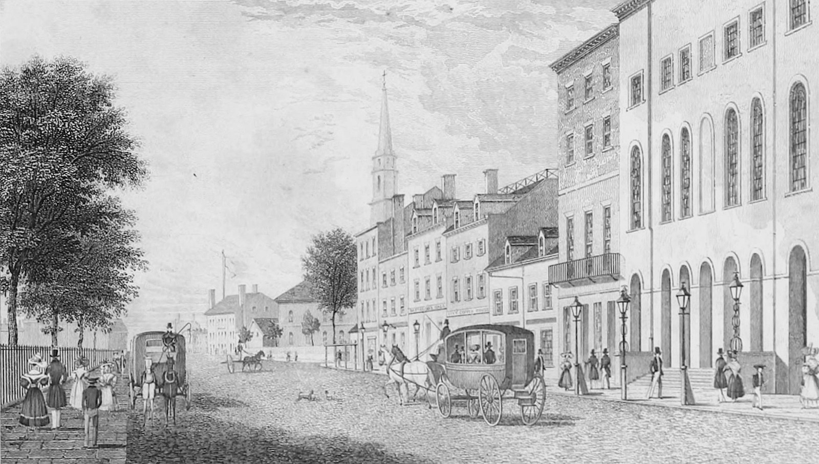 Caption: "PARK THEATRE-PARK ROW. (Tammany Hall in the distance.)" Credit line: "Drawn & Engraved by H. Fossette." View is east along Park Row. Park Theatre is at right; at center-left is the Brick Presbyterian Church; further left is Tammany Hall at 166-170 Nassau Street; at extreme left is the fence of City Hall Park. Text, pp. 31-4